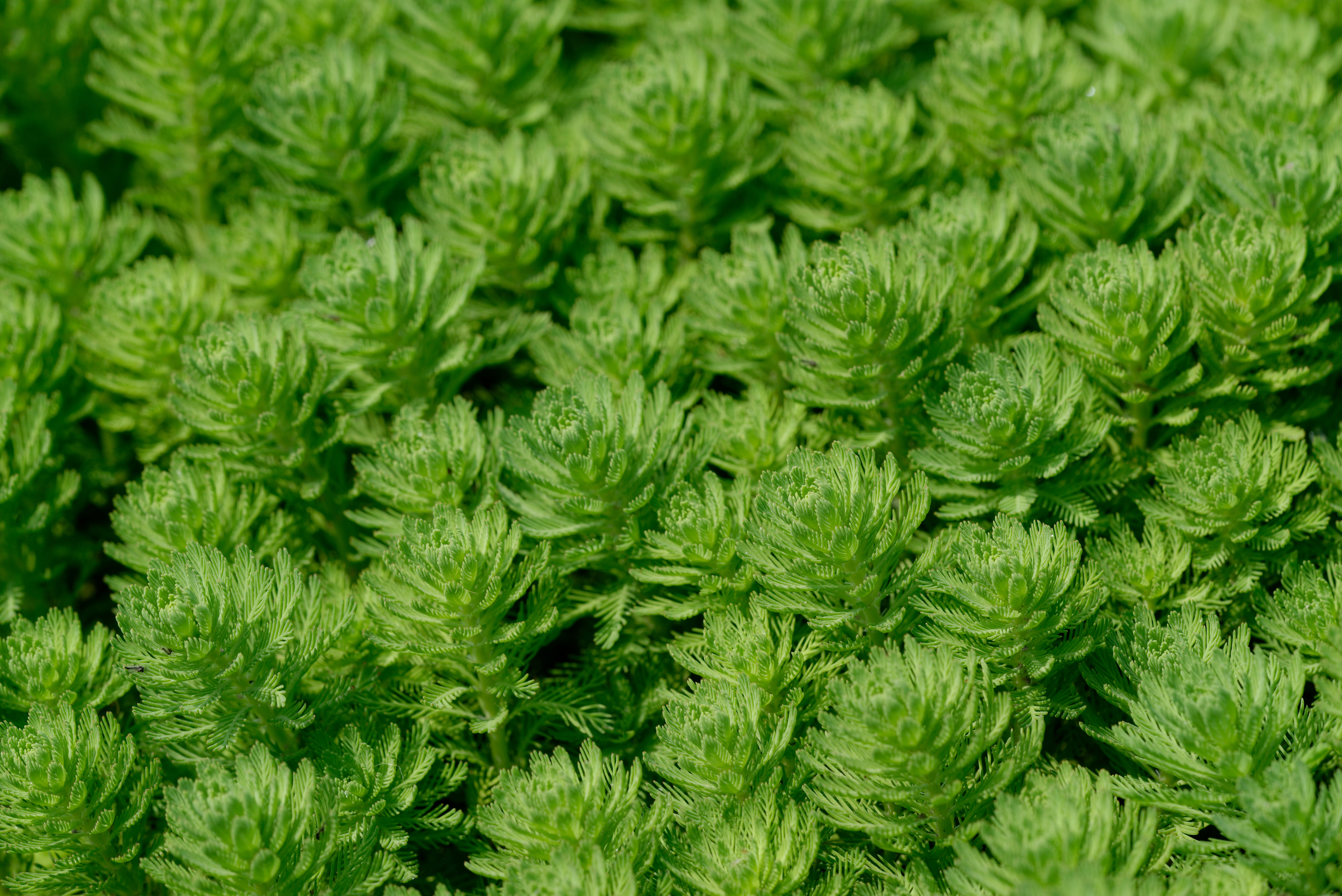 Parrot feather (Myriophyllum aquaticum) in Botanic school of the Jardin des Plantes, Paris.